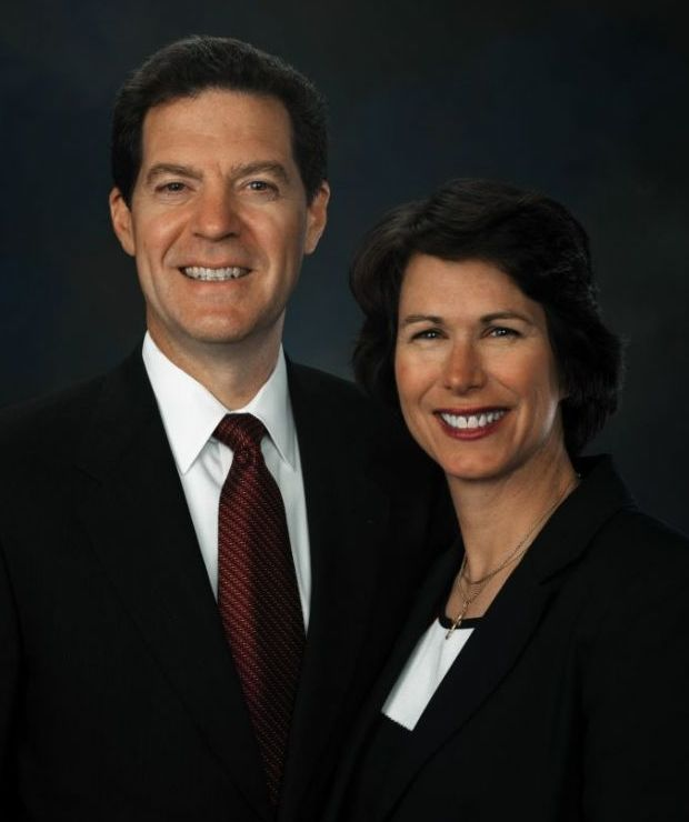 U.S. Senator from Kansas, Sam Brownback, poses with his wife, the former Mary Stauffer.